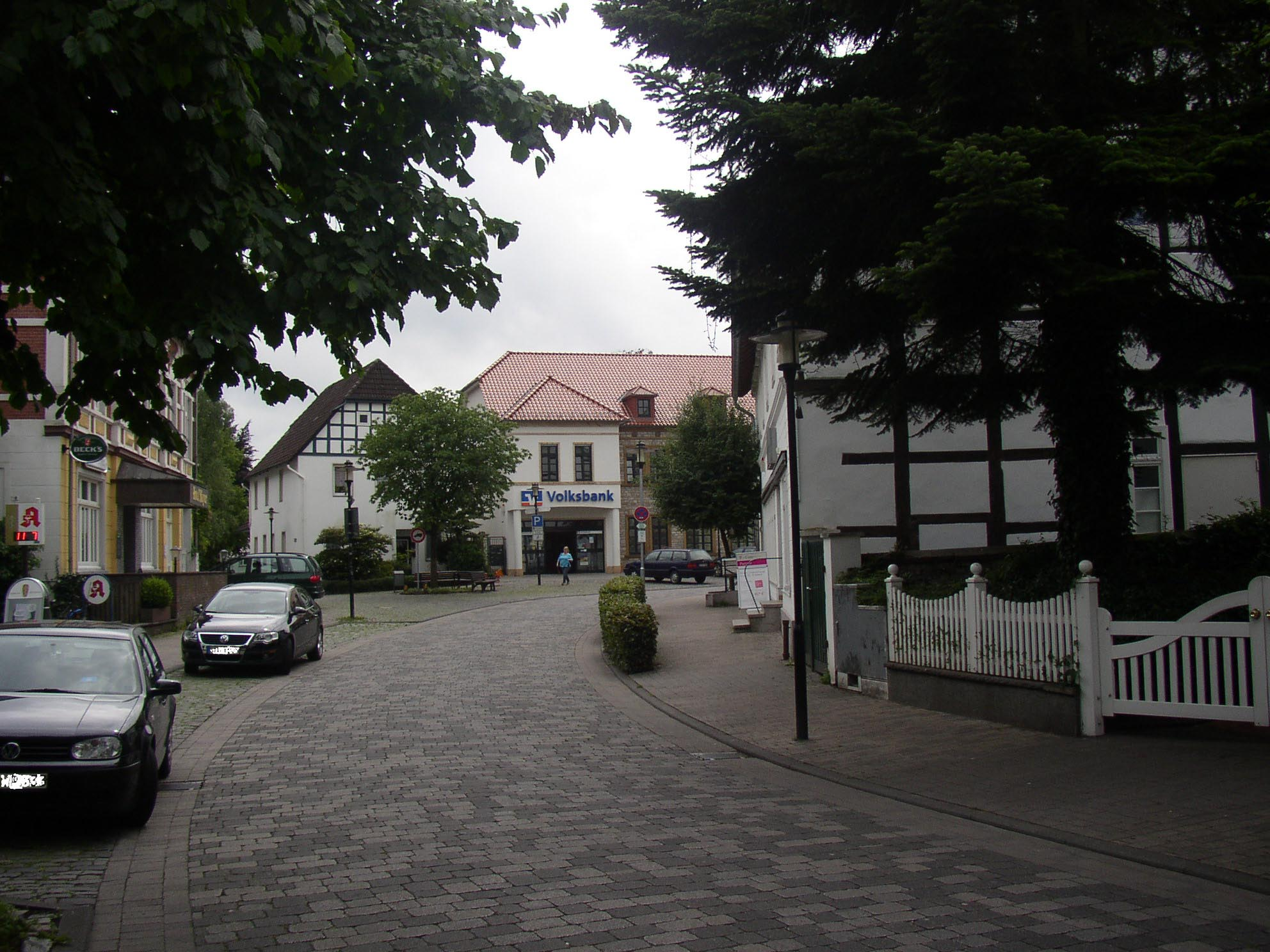 town center view in Borgholzhausen, County of Gütersloh, Germany